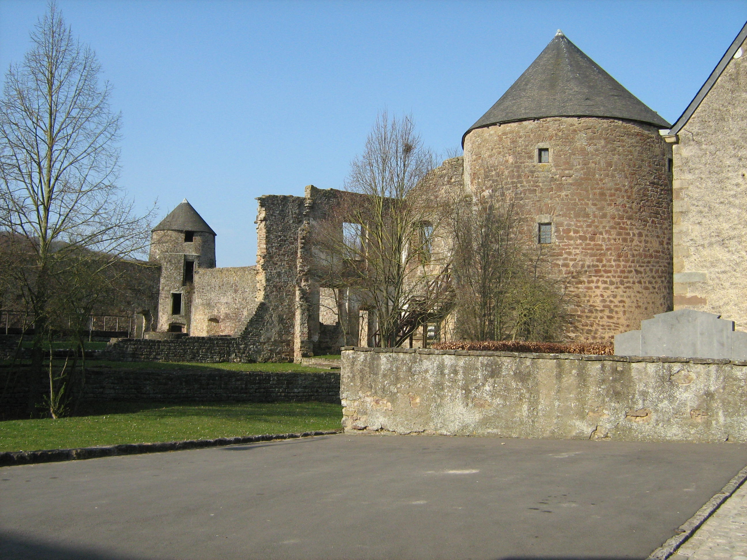 Pettingen Castle near Mersch, Luxembourg